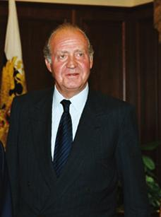 The King Juan Carlos I of Spain in 2001.